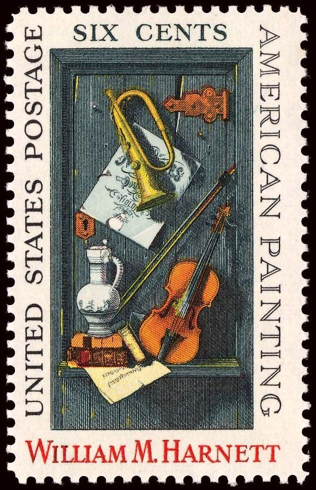 Image of William Harnett commemorative stamp